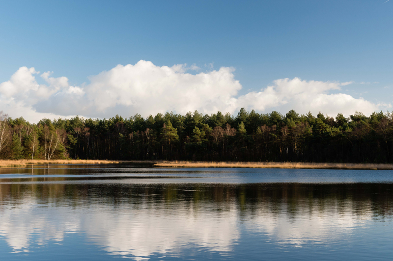 Ruiterskuilen in Duinengordel